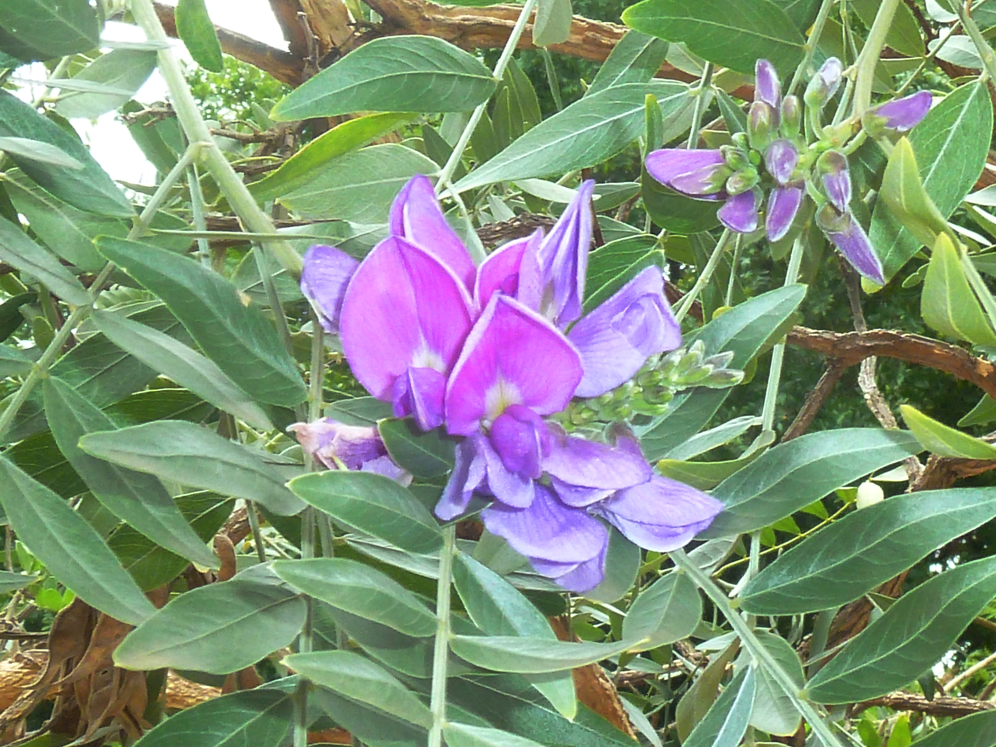 Flowers of a Cork bush in the Manie van der Schijff Botanical Garden, Pretoria